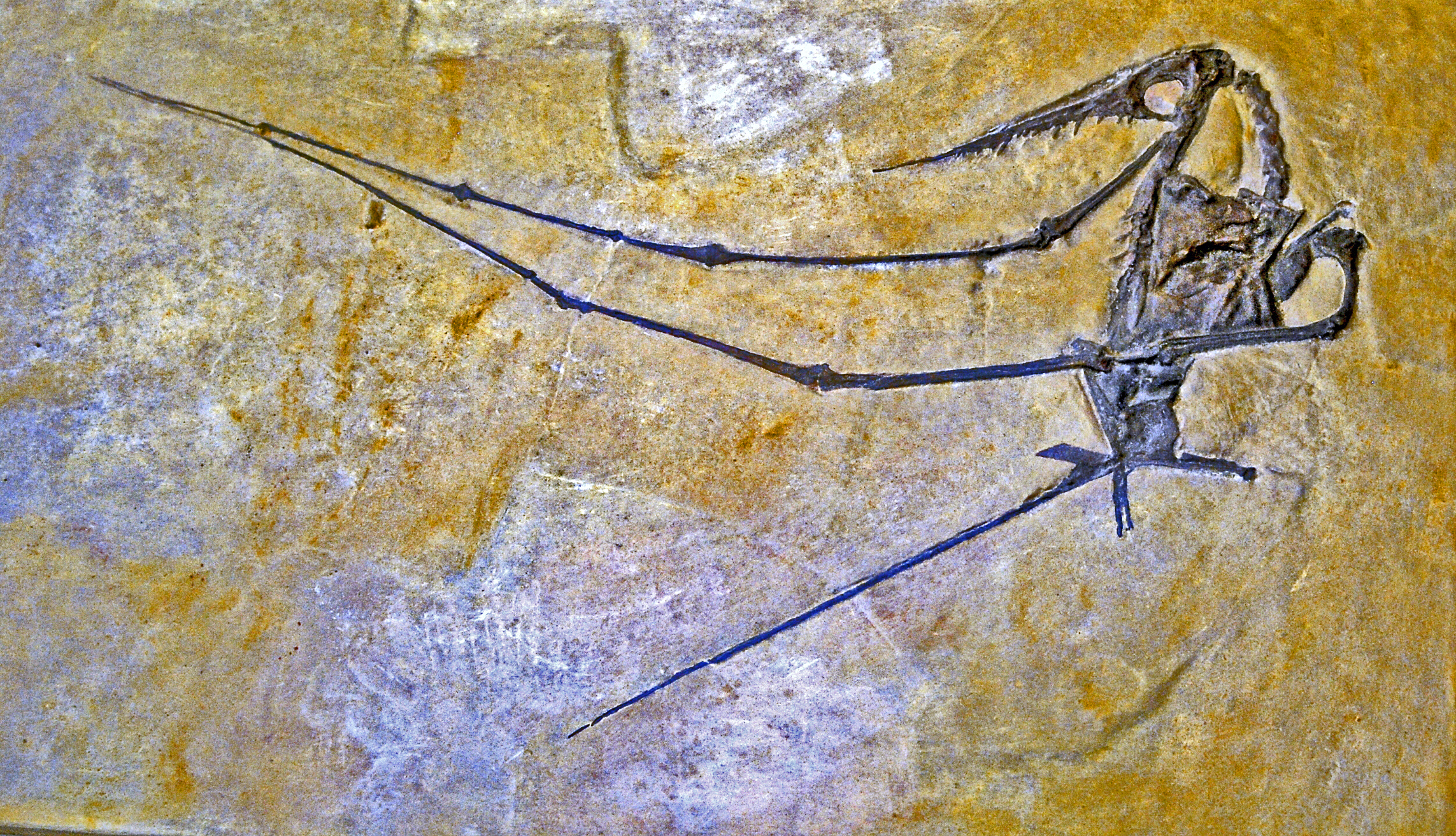 Rhamphorhynchus muensteri on display at the Museo Civico di Storia Naturale di Milano